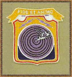 Emblem of the 603d Aircraft Warning and Control Squadron, Giebelstadt AB, West Germany